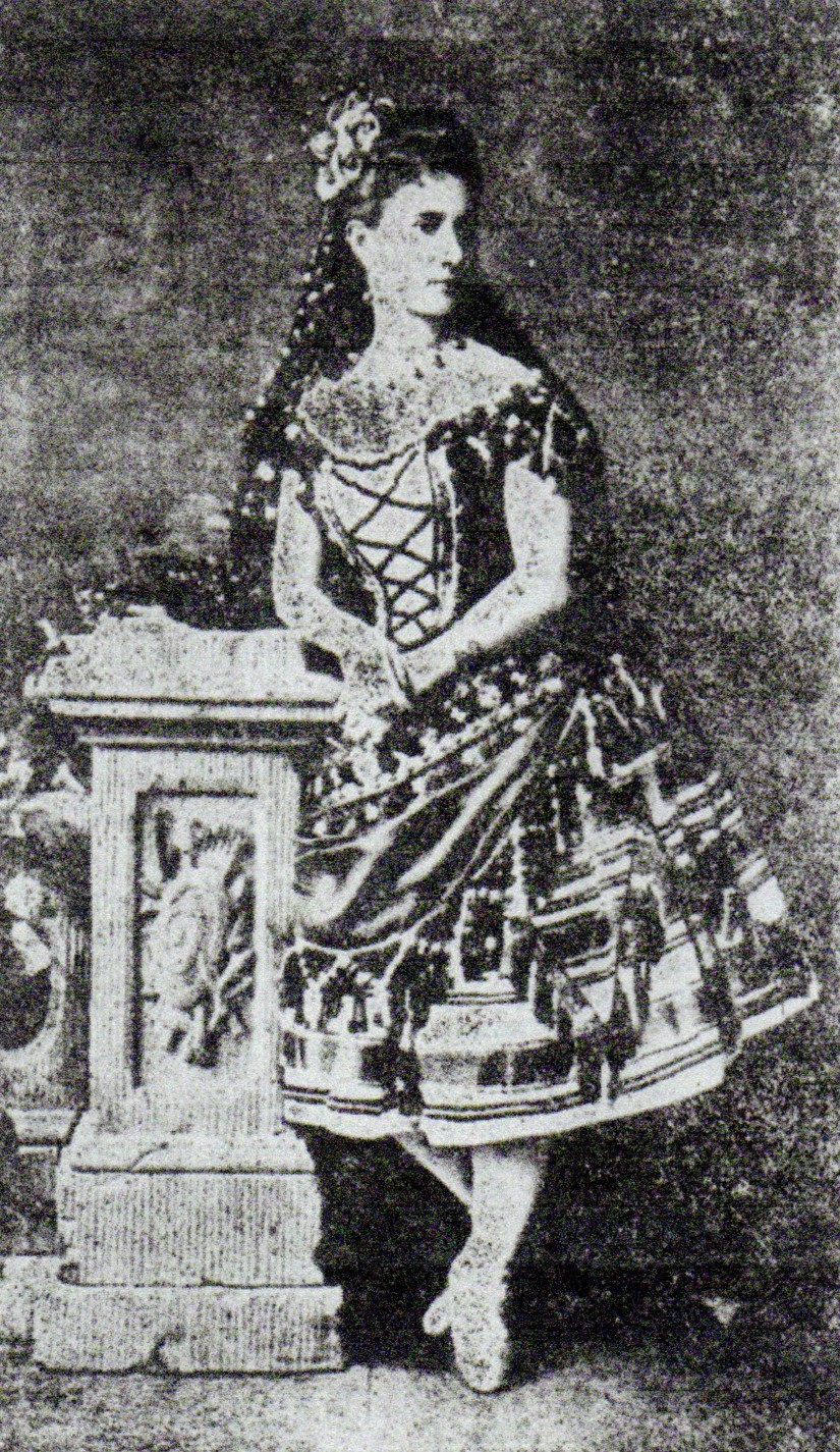 Photo of the ballerina Ekaterina Ottovna Vazem (1848-1937) costumed for the title role of the choreographer Marius Petipa's (1818-1910) 1881 revival of the choreographer Joseph Mazilier (1801-1868) and the composer Edouard Deldevez's (1817-1897) 1846 ballet Paquita. Some sources claim that she is playing Zoraiya not Paquita. See discussion on the talk page